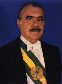 President of Brazil: José Sarney (1985-1990)